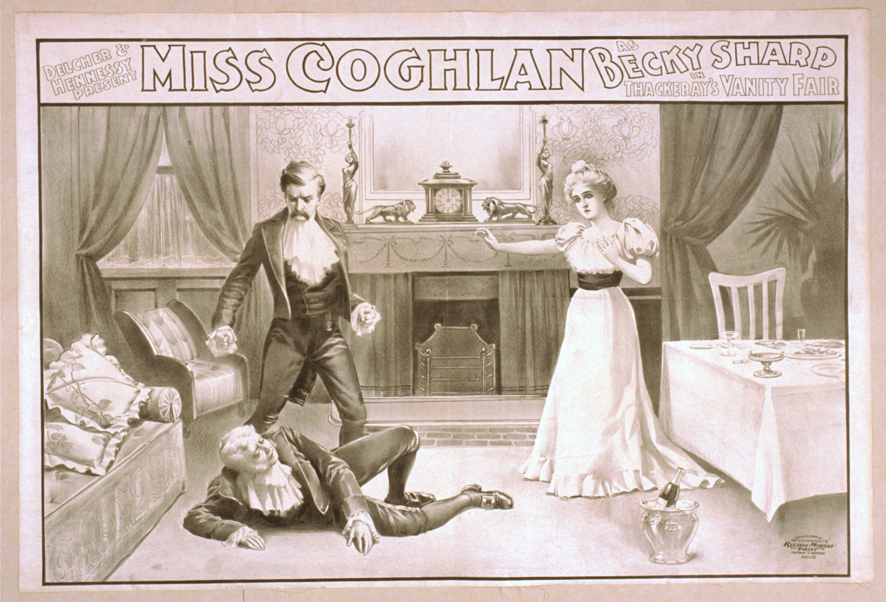 Title: Delcher & Hennessy present Miss Coghlan as Becky Sharp in Thackeray's Vanity fair Abstract/medium: 1 print : black and white lithograph ; sheet 71 x 105 cm. (poster format)